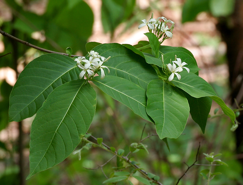 Holarrhena pubescens (syn. Holarrhena antidysenterica, Echites antidysenterica, Holarrhena codaga, Nerium antidysentericum) - Bitter Oleander, Connessi Bark, sentery Rose Bay, Tellicherry Bark, Indrajao • Assamese: dhulkari, dudkhuri • Bengali: kurchi, কুটজ kutaja • Gujarati: કડવો ઇન્દ્રજવ kadavo indrajav • Hindi: कडवा इंद्रजव karva indrajau, कुटज kutaja • Kannada: koodsaloo, korchie • Kashmiri: अन्दुसुरुन् andusurun • Konkani: कुडॉ kudo • Malayalam: കുടകപ്പാല kutakappaala • Marathi: इंद्रजव indrajav, कुटज kutaja, पांढरा कुडा pandhra kuda • Punjabi: keor, kewar • Oriya: kherwa, korwa, kurwa, pitakorwa • Sanskrit: इंद्रयव indrayava, कुटज kutaja, sakraparyaaya, sakraasana, वत्सक vatsaka • Tamil: கிரிமல்லிகை kirimllikai, குடசப்பாலை kutaca-p-palai, மலைமல்லிகை mlaimllikai • Telugu: గిరిమల్లిక girimallika, కొడిసెపాల kodisepala, కోలముక్కు kolamukku, కొండమల్లె kondamalle, కుటజము kutajamu - at Ananthagiri Hills, in Rangareddy district of Andhra Pradesh, India.